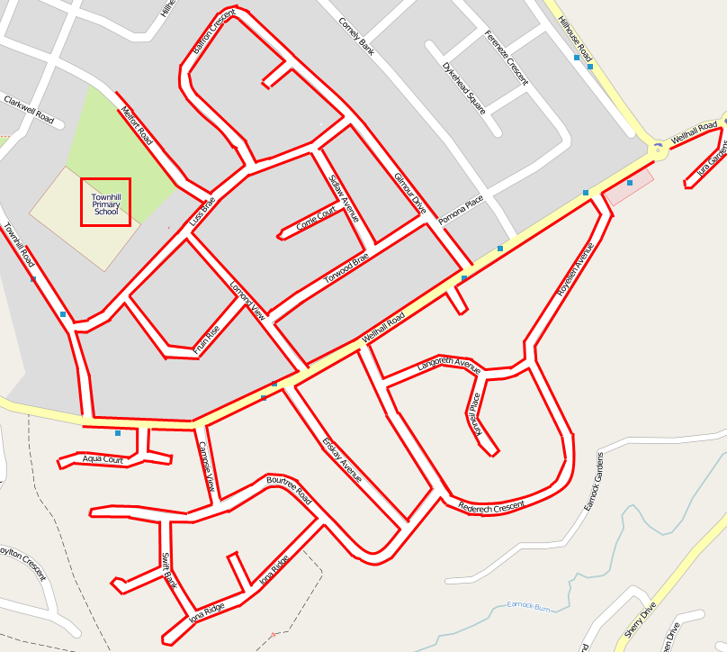 Map of Earnock Estate area in Hamilton, South Lanarkshire, UK. Streets and parts of streets in the Earncok Estate area are maked in red outline. Original map © OpenStreetMap contributors, CC-BY-SA